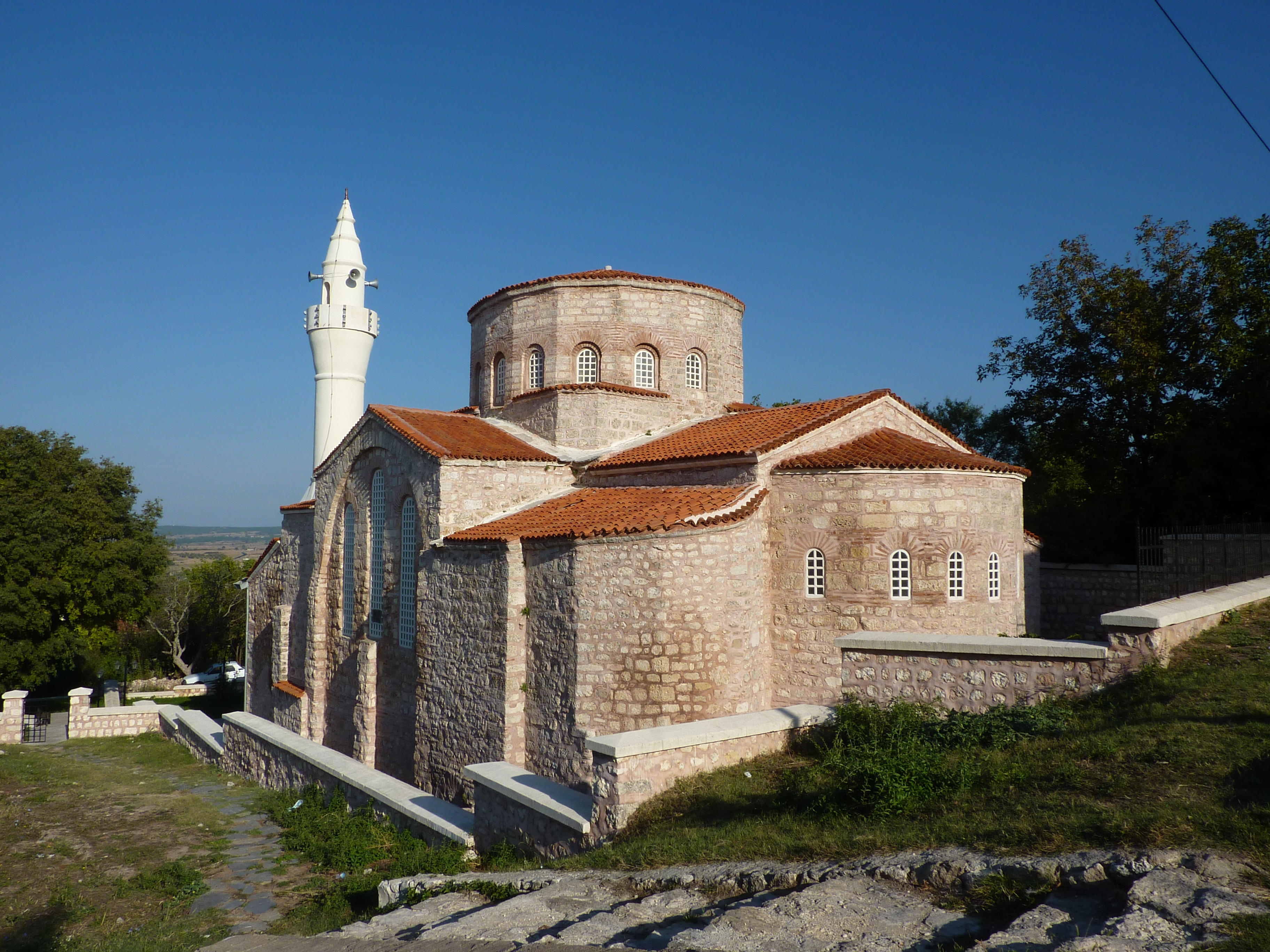 Former Hagia Sophia Church in Vize, Turkey. Presently, Suleyman Pasha's Mosque.